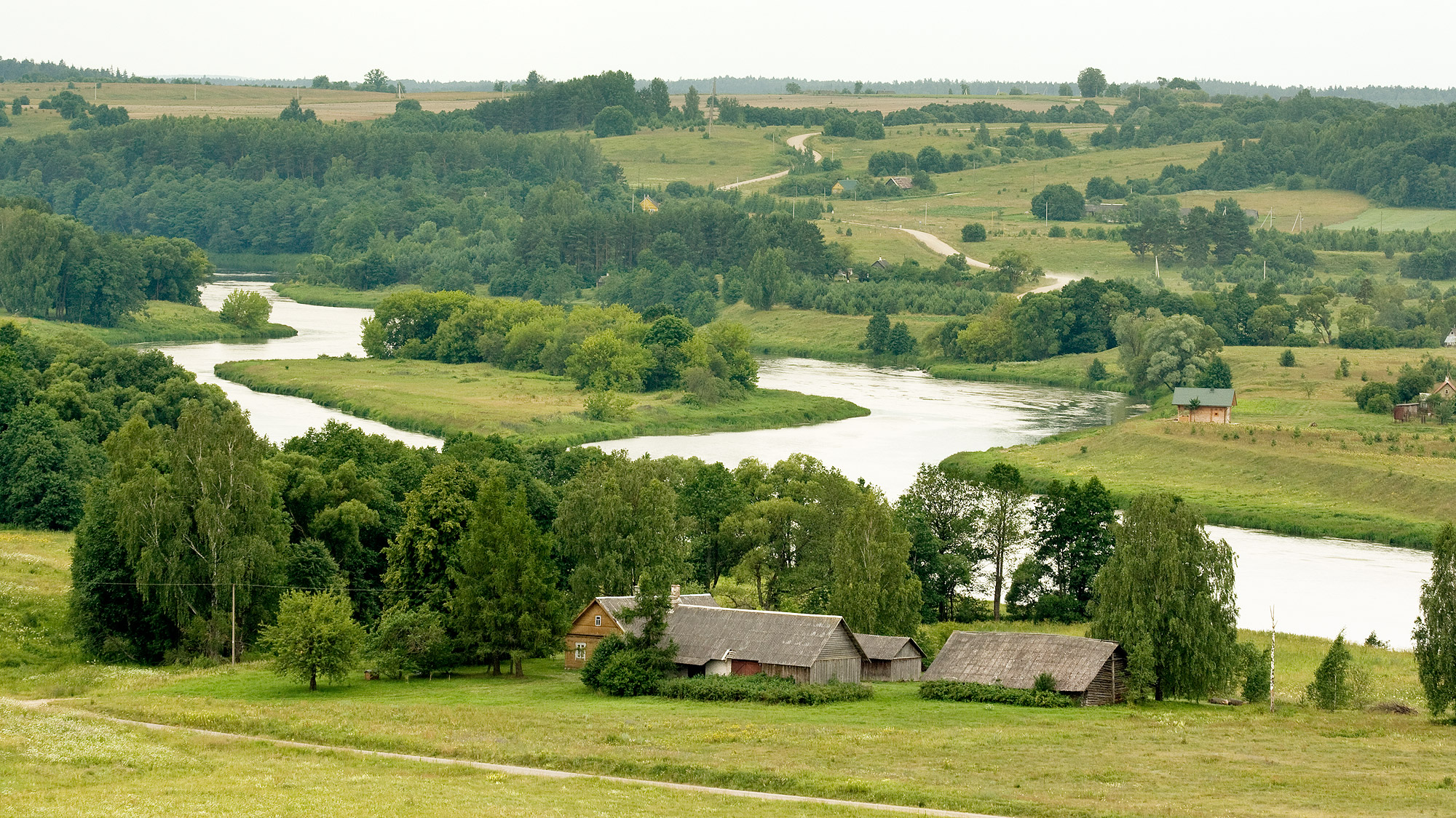 Neris river. 2008, Kernavė, Lithuania